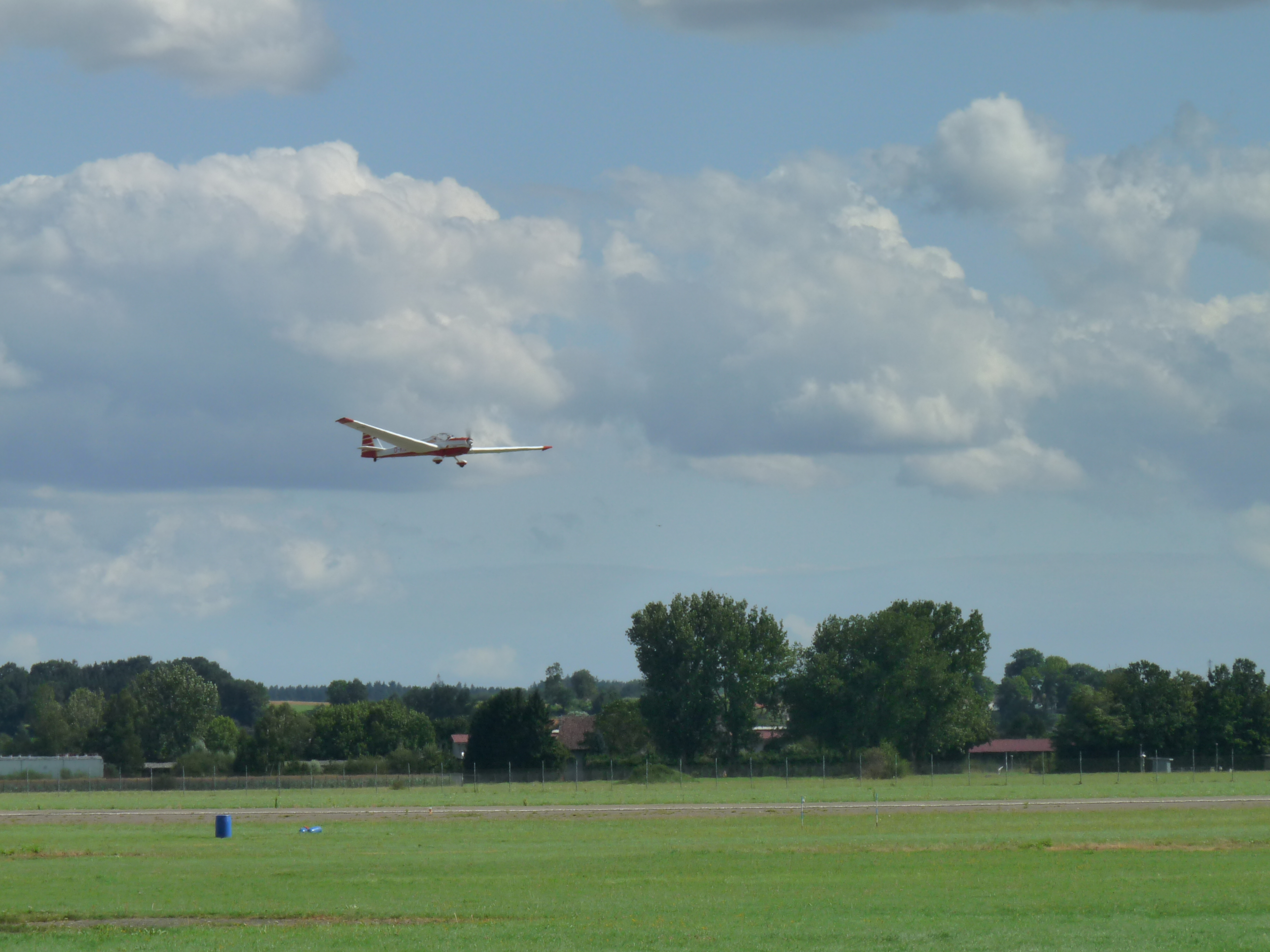 Starting plane at Airport Mengen-Hohentengen, Germany